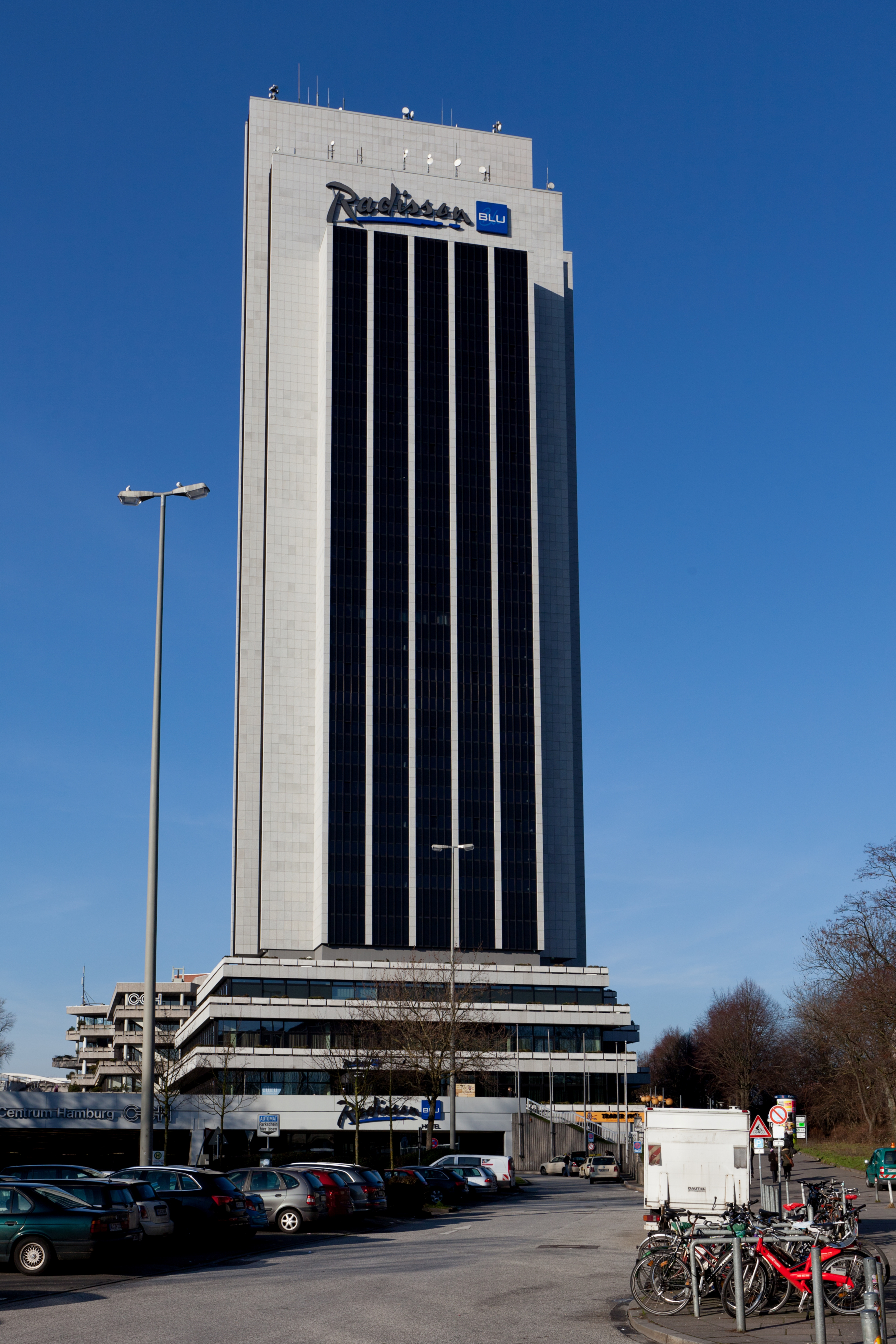 The Radisson Blu Hotel Hamburg next to the Hamburg Dammtor station. With 108 m (354 ft),the Radisson is the tallest building of the city.